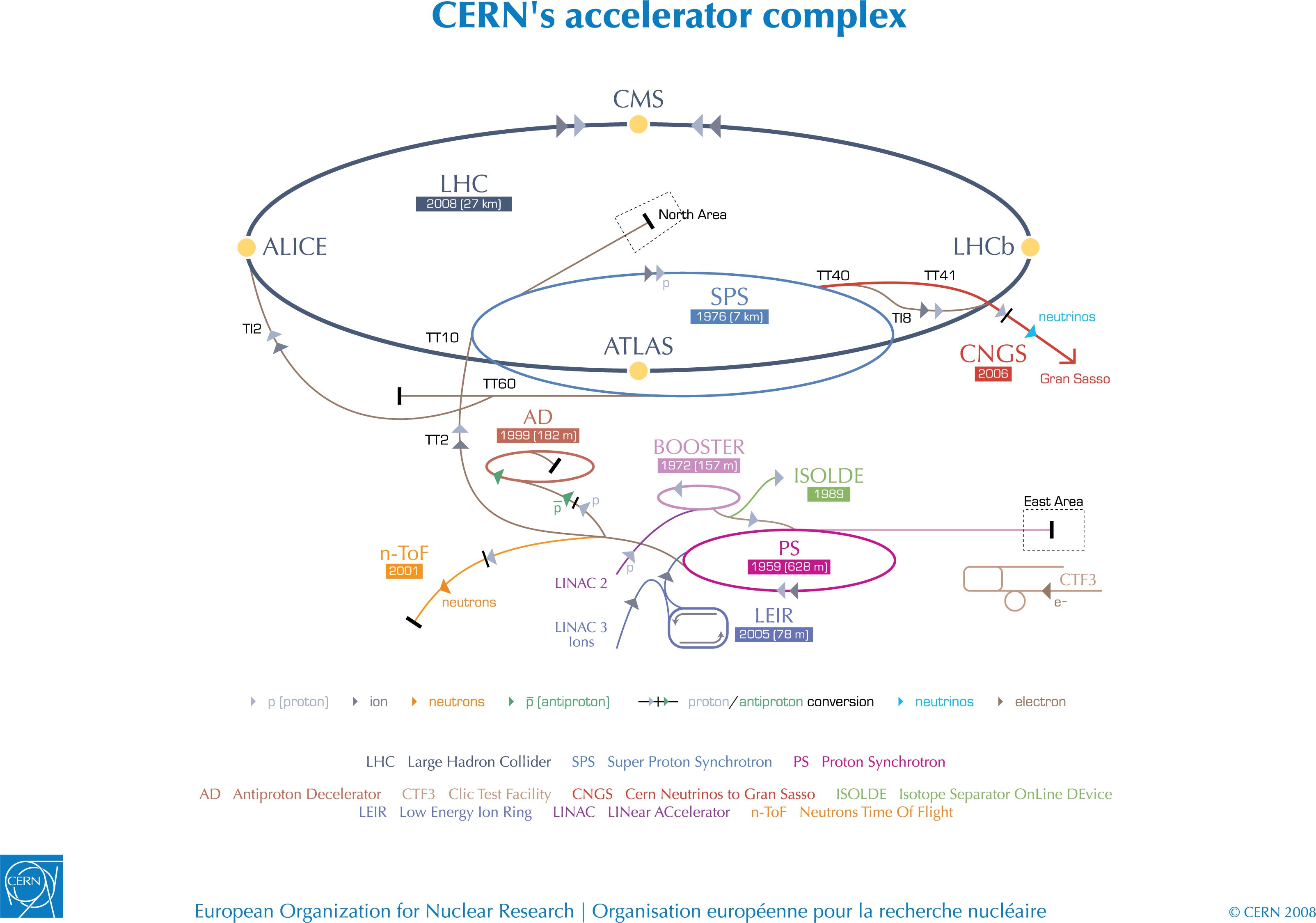 CAC- CERN accelerator complex